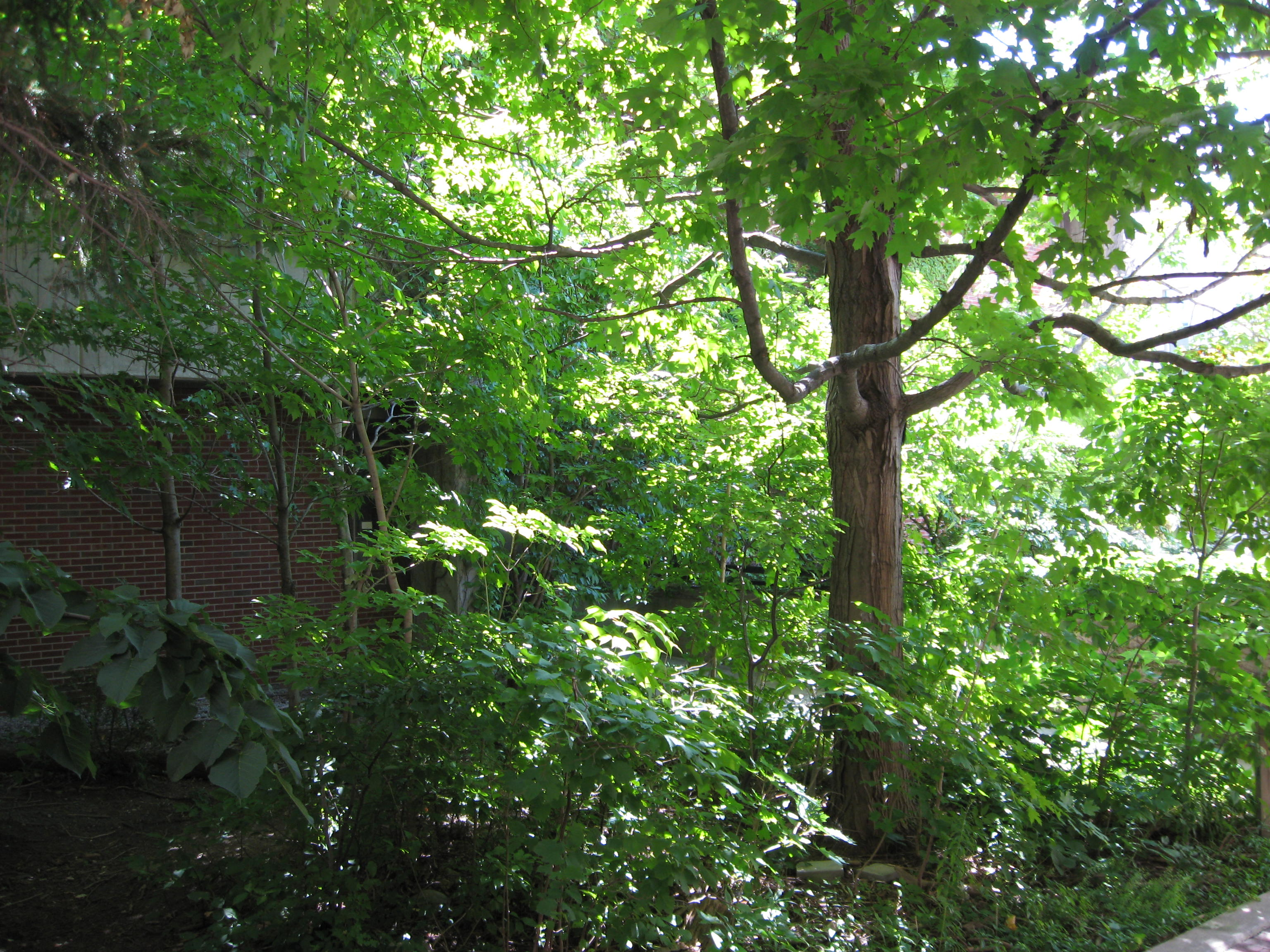 Forest restoration demonstration area, SUNY College of Environmental Science and Forestry, Syracuse, NY